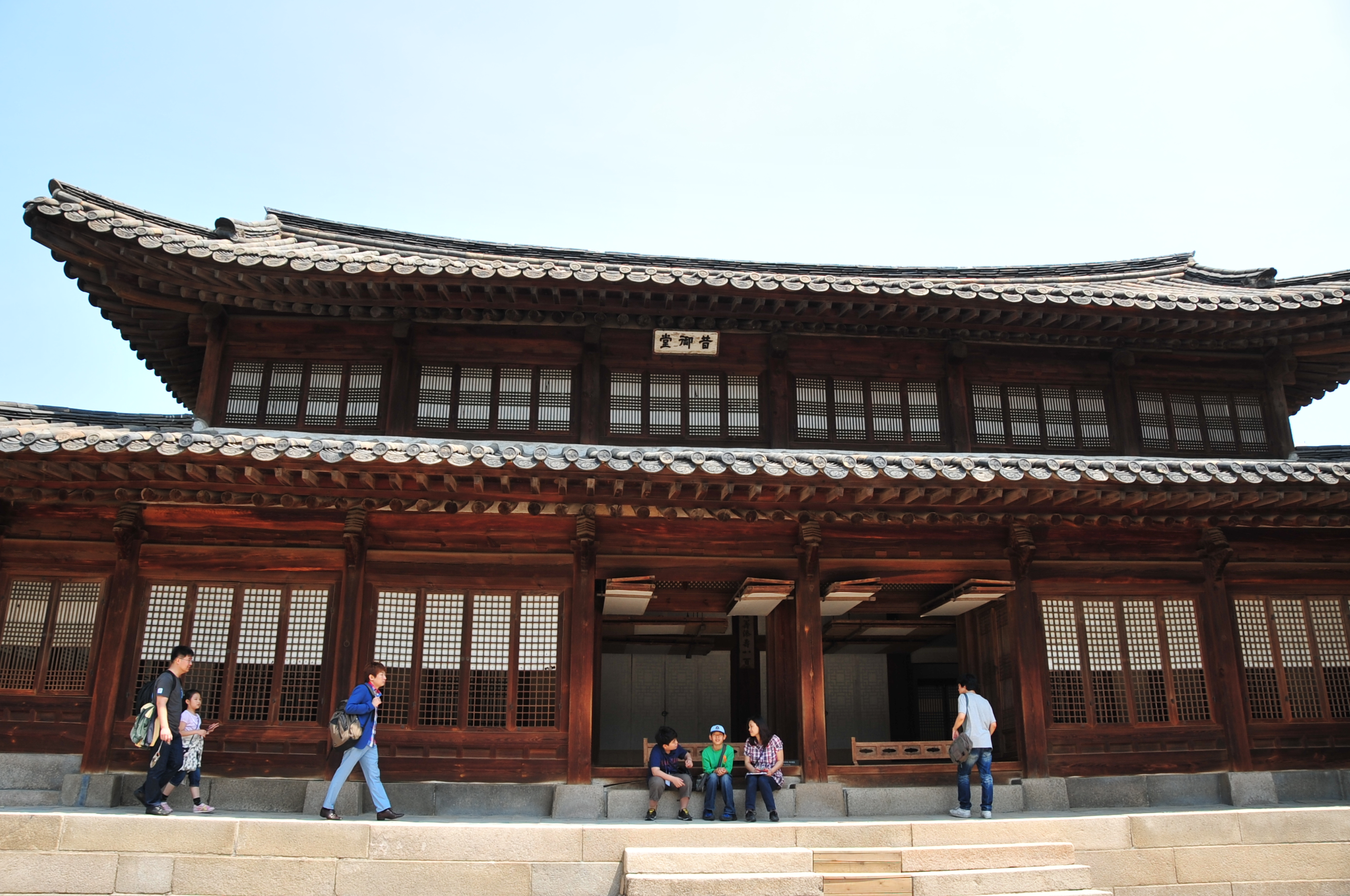 House at Deoksugung. Own work 덕수궁 석어당